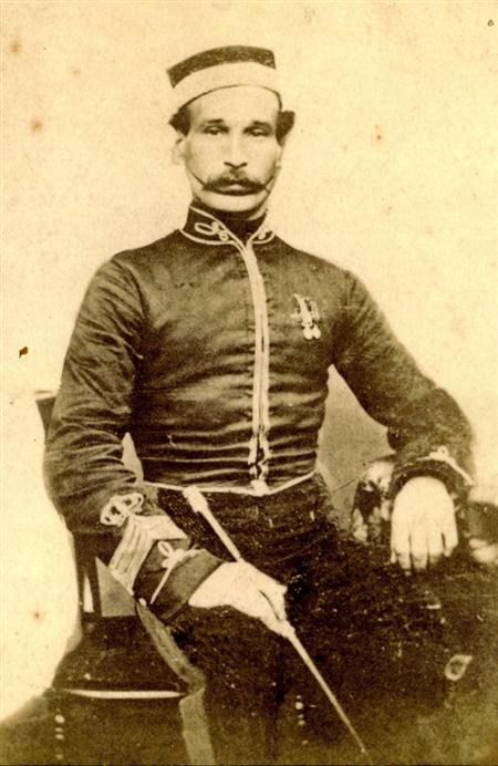 John Ashley Kilvert, later Mayor of Wednesbury, England, wearing his British army uniform and medals from the Crimean War.